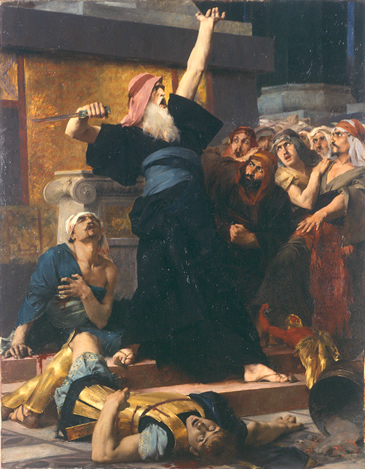 Mattathias (hébreu : מתתיהו בן יוחנן הכהן Matityahou ben Yohanan HaCohen)